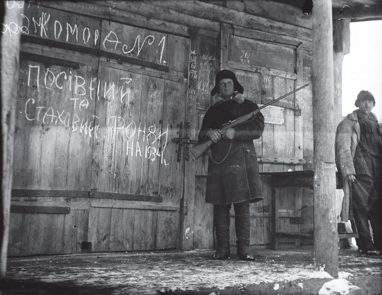 Armed guard - a komsomol member in front of warehouse with seed and insurance stock. 1934